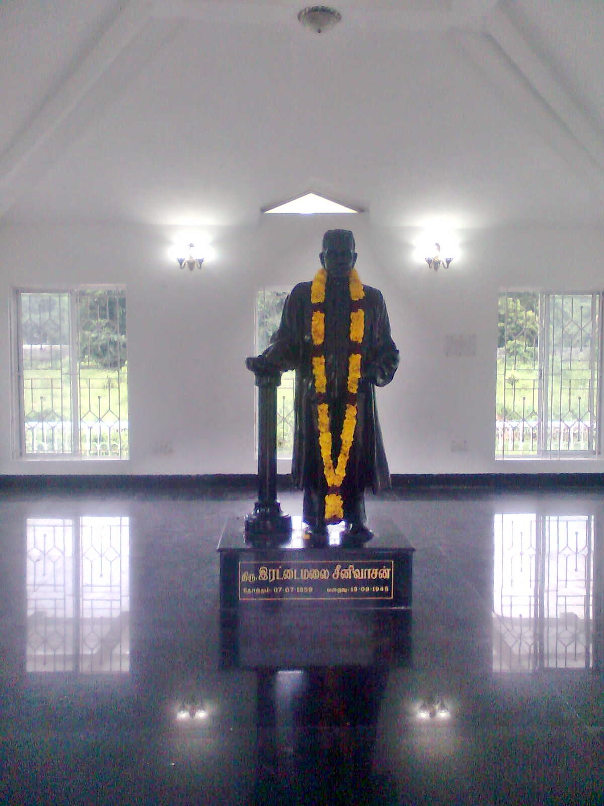 A statue of Thiru. Irattai malai Sreenivasan in his Memorial building in Gandhimandapam area in Chennai